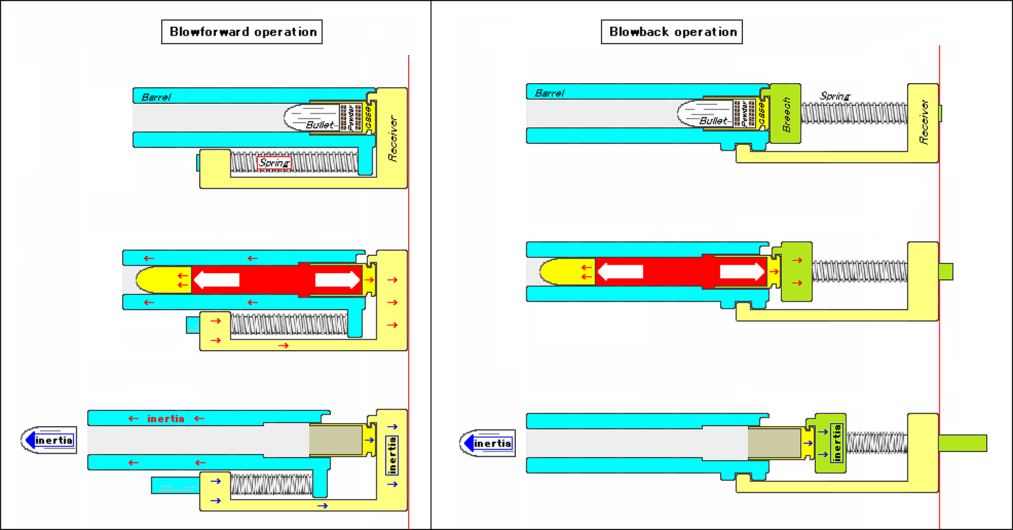 Simplified & comparison diagram of Simple Blowback and Blowforward operation.